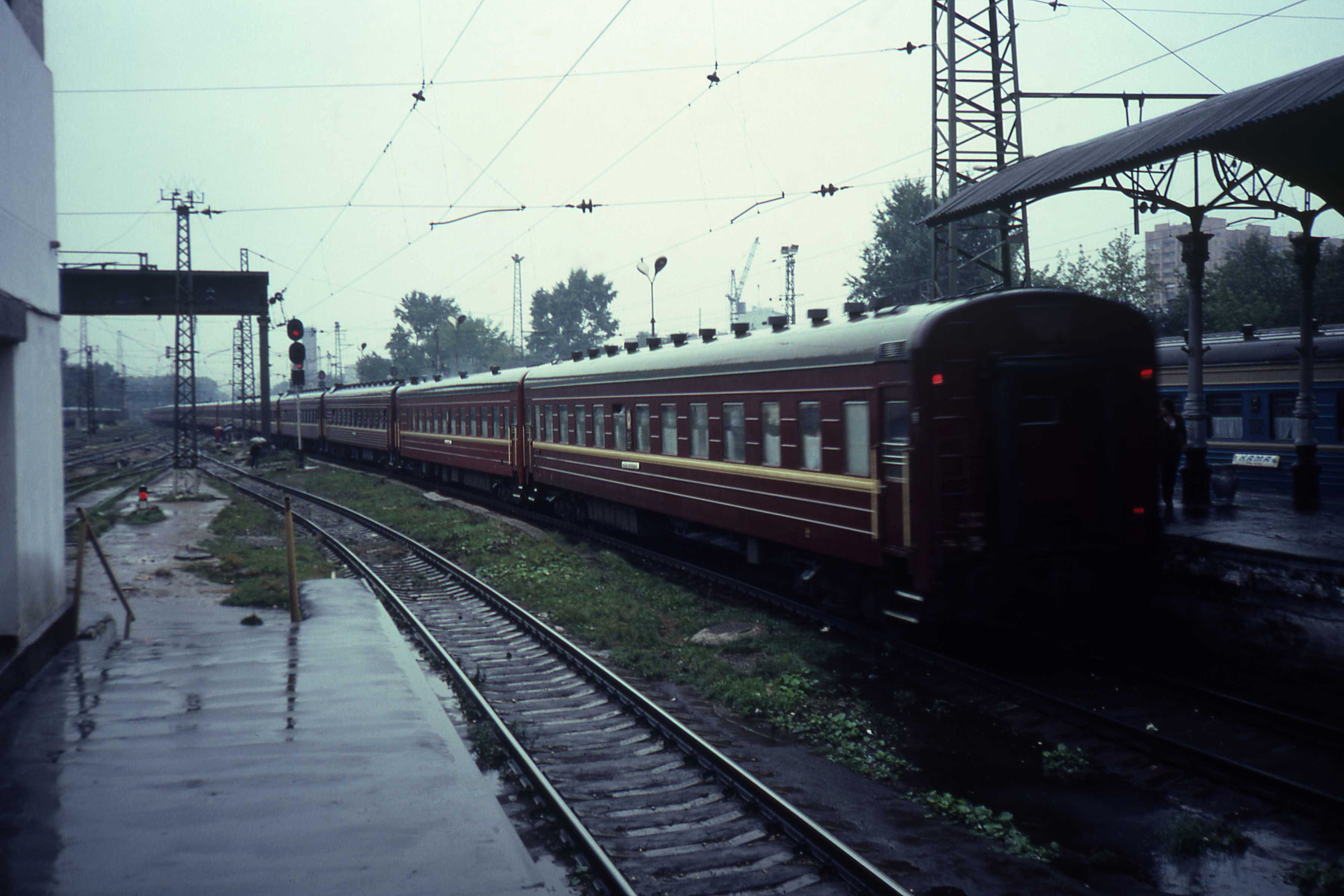 The Transsiberian-express train "Rossiya" leaving Moscow